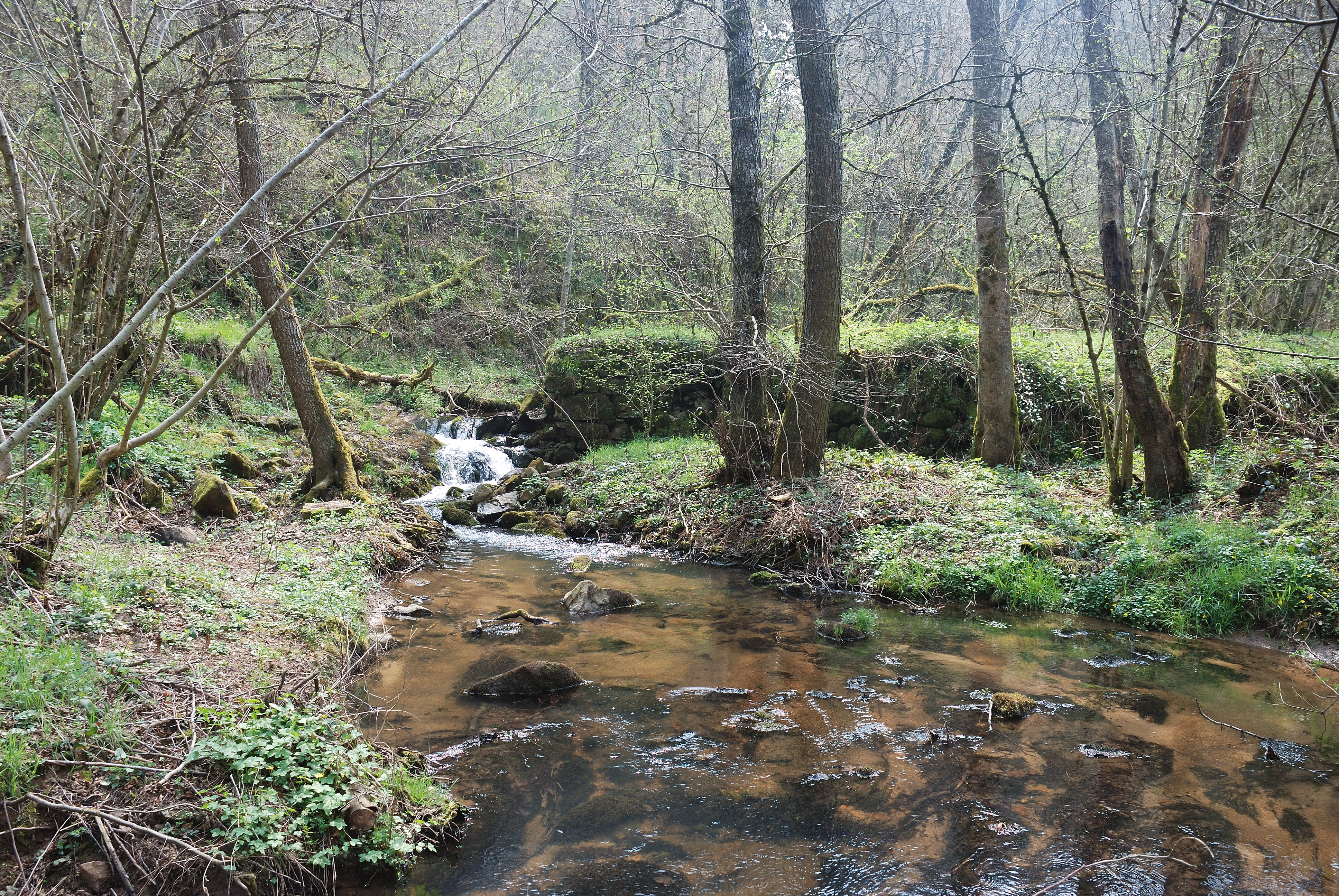 The river Lilion near Sermentizon (Puy-de-Dôme, France).